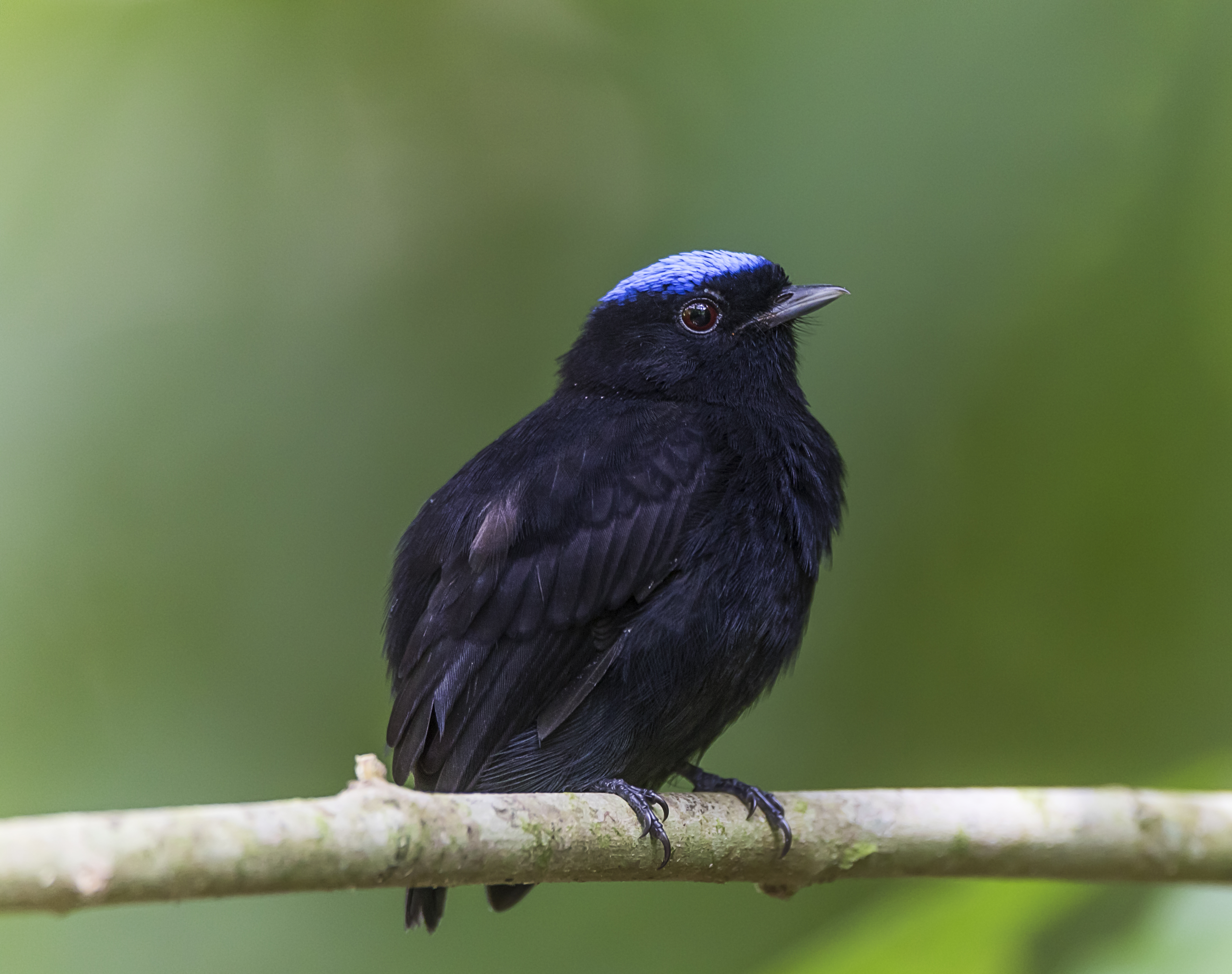 A male blue-crowned manakin. Photo taken in Jaco, Costa Rica